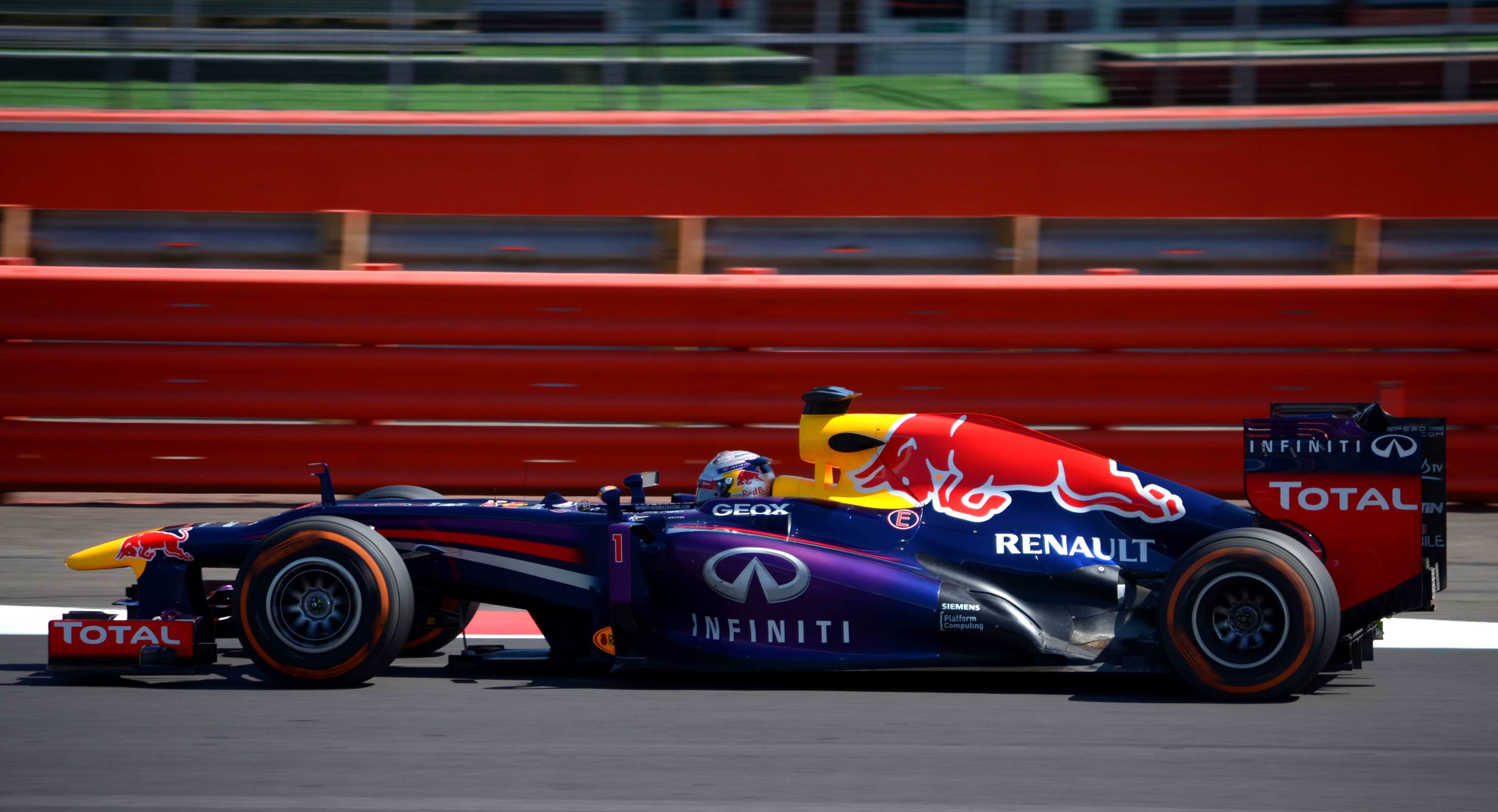 Sebastian Vettel driving the Red Bull RB9 at the Young Drivers' Test at Silverstone.